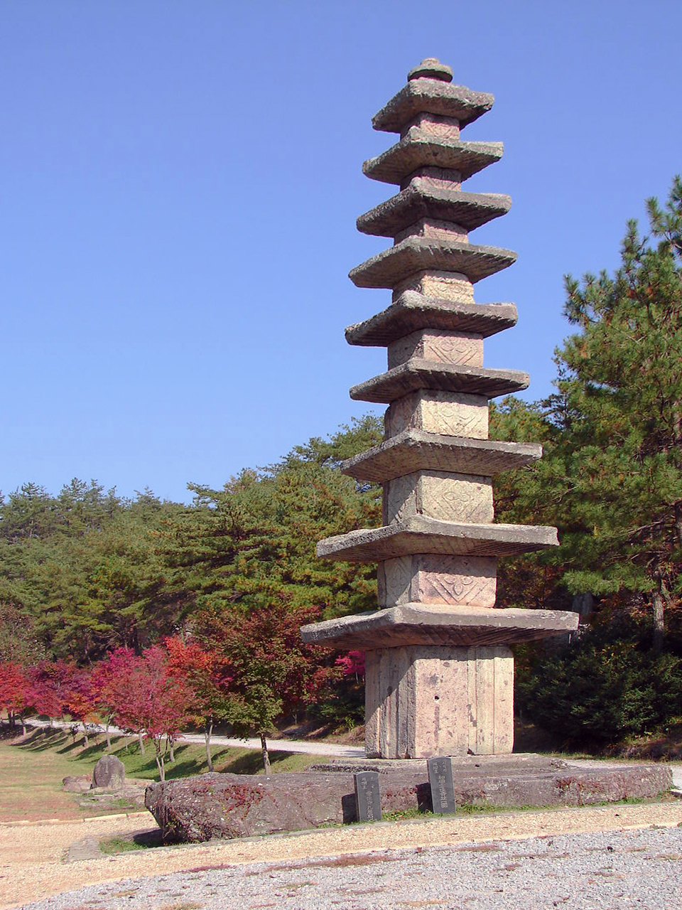 Unjusa Gucheung Seoktap (Nine-storied stone pagoda at Unjusa) at Unjusa near Gwangju (Hwasun/Yongyang) Jeollanam-do